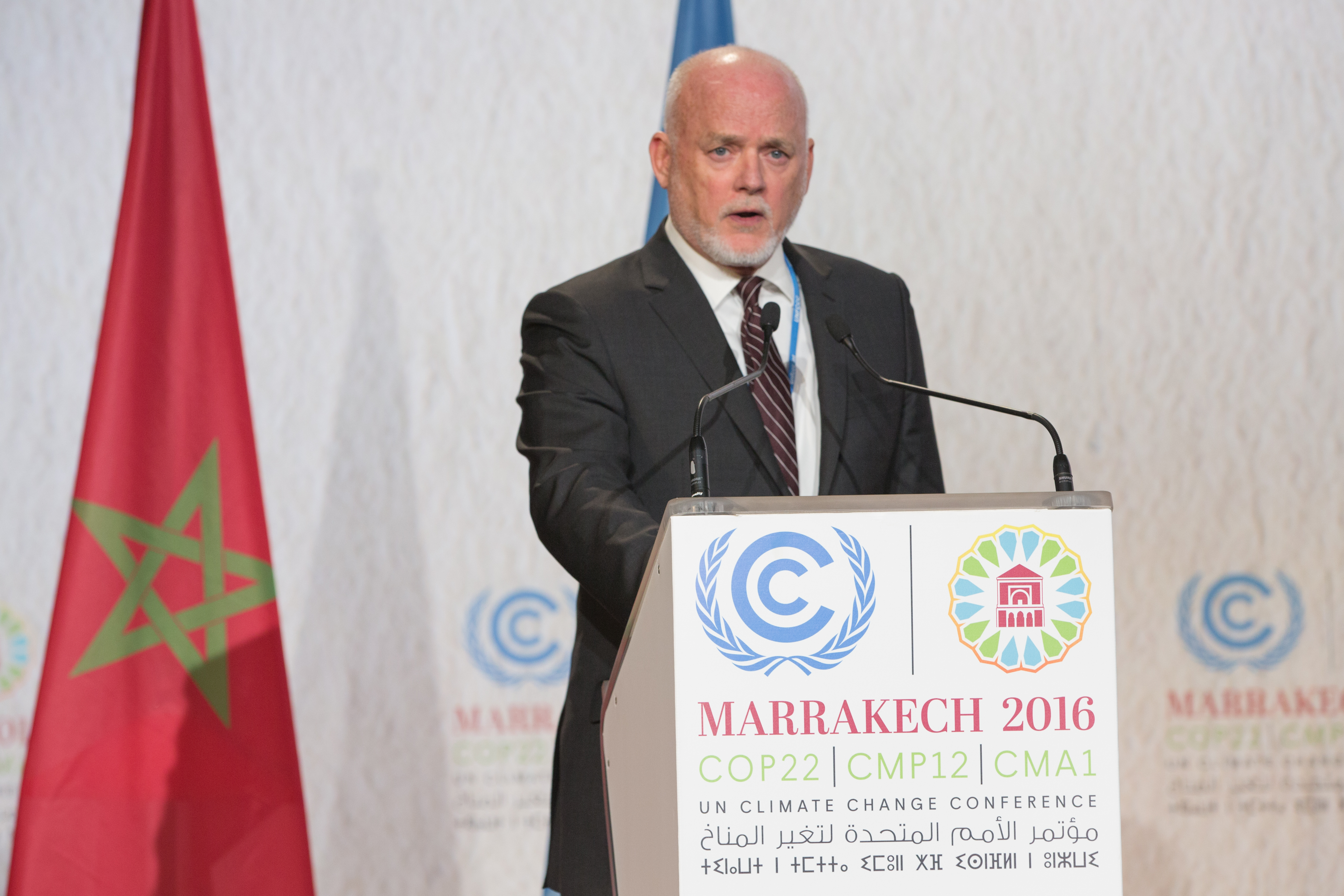 President of the General Assembly of the United Nations, His Excellency Mr. Peter Thomson